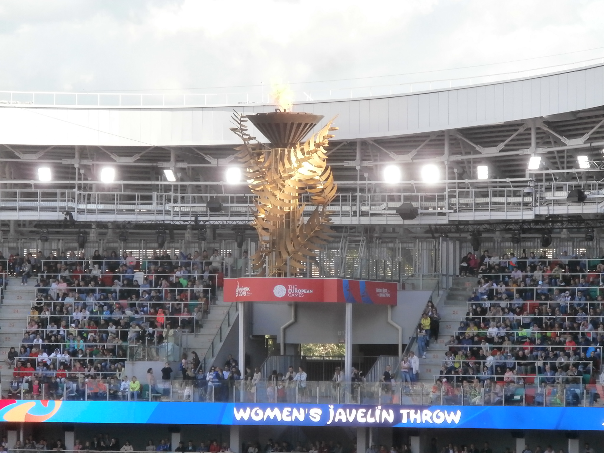 Olympic Cauldron of the 1980 Summer Olympics in the Dinamo Stadium Minsk 28 June 2019